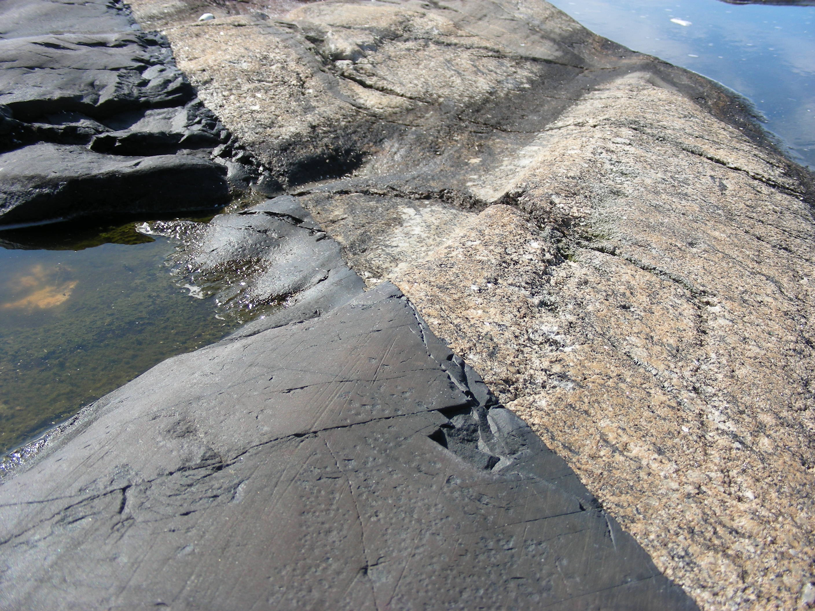 Contact between a dark-coloured tholeiitic dolerite dyke (about 1100 million years old) and light-coloured nebulitic migmatitic paragneiss (1800 million years old, Stora Le Marstrand Formation) in Kosterhavet National Park on Yttre Ursholmen island in the Koster Islands off the southwestern coast of Sweden. The rock association seen in the photograph belongs to the undeformed southernmost part of the Kattsund-Koster dyke swarm of the Kongsberg-Bamble-Østfold segment of the Sveconorvegian Province of the Baltic Shield.[1]